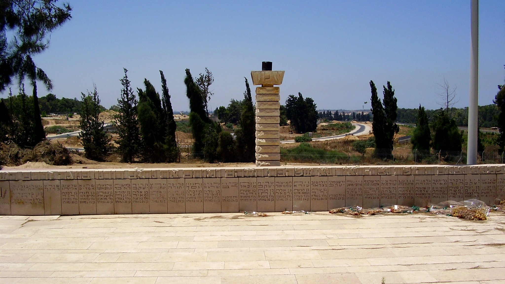 The memorial for the fallen Israeli soldiers of the Battle of Nitzanim. Color-corrected and resized copy of the original at he:קובץ:שמות החללים בקבר האחים לחללי ניצנים במלחמת העצמאות.jpg by he:User:Avi1111.